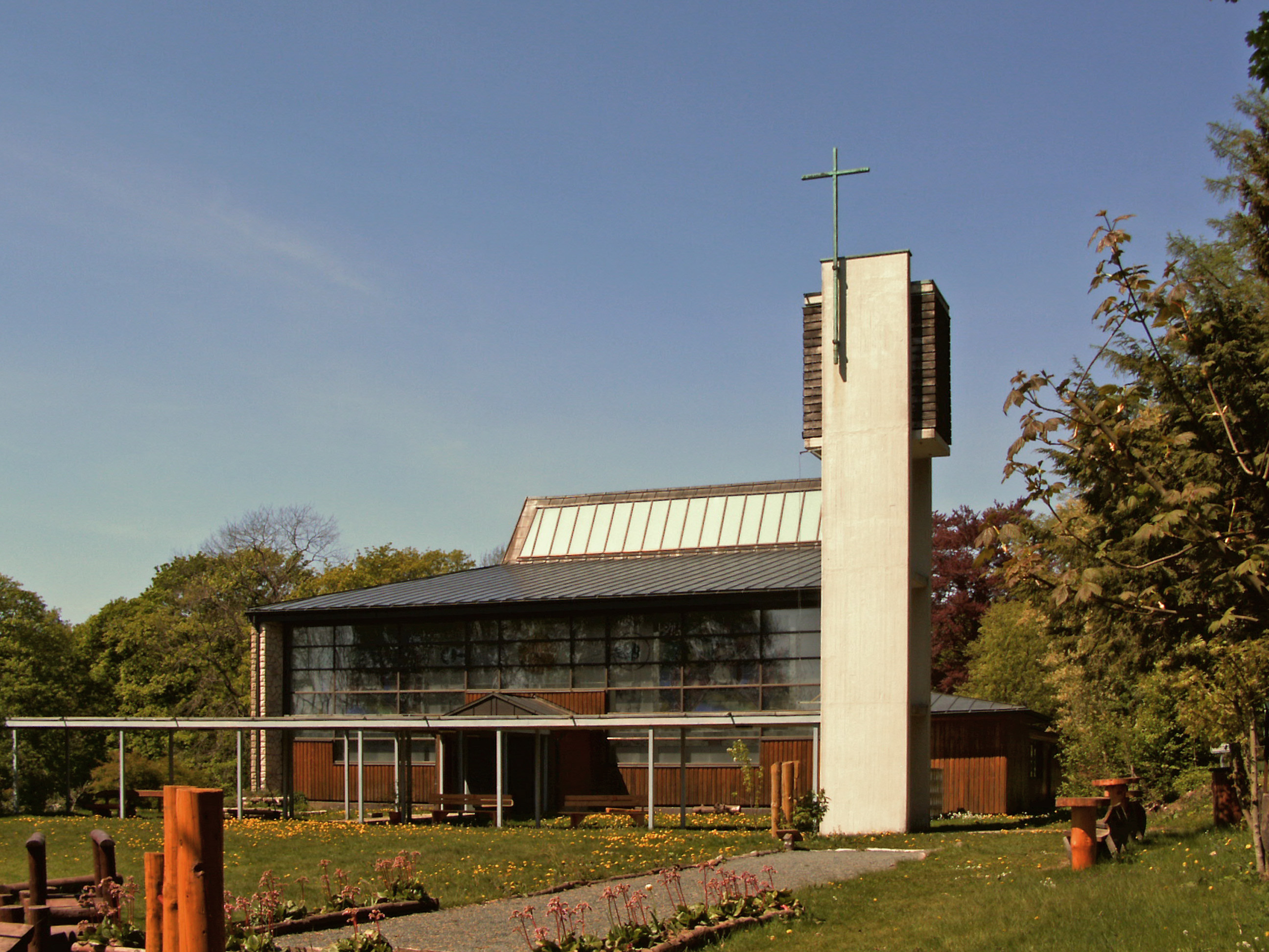 Catholic Church St. Andreas in St. Andreasberg, District Goslar